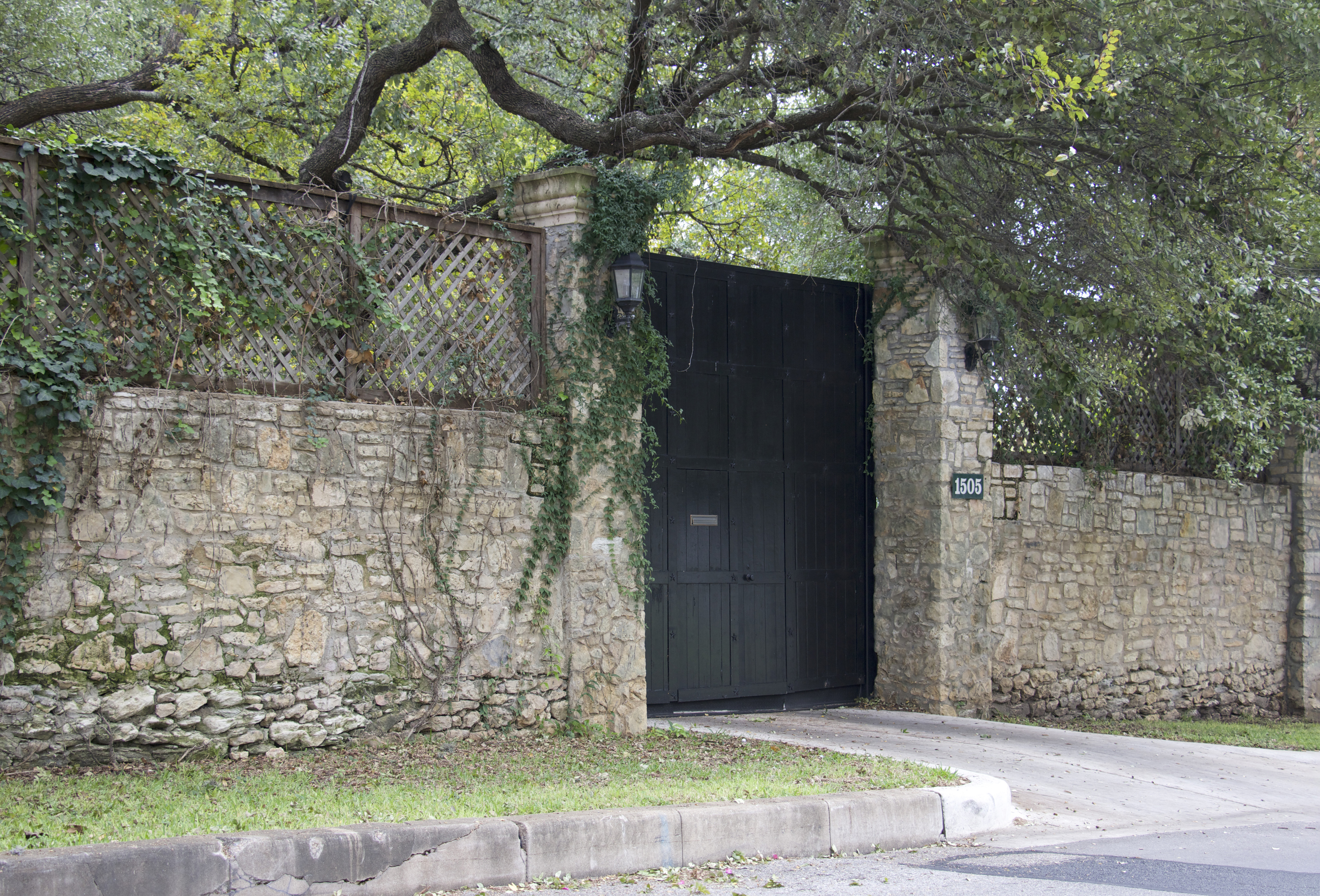 Judge Robert Lynn Batts House, Austin, TX - Exterior